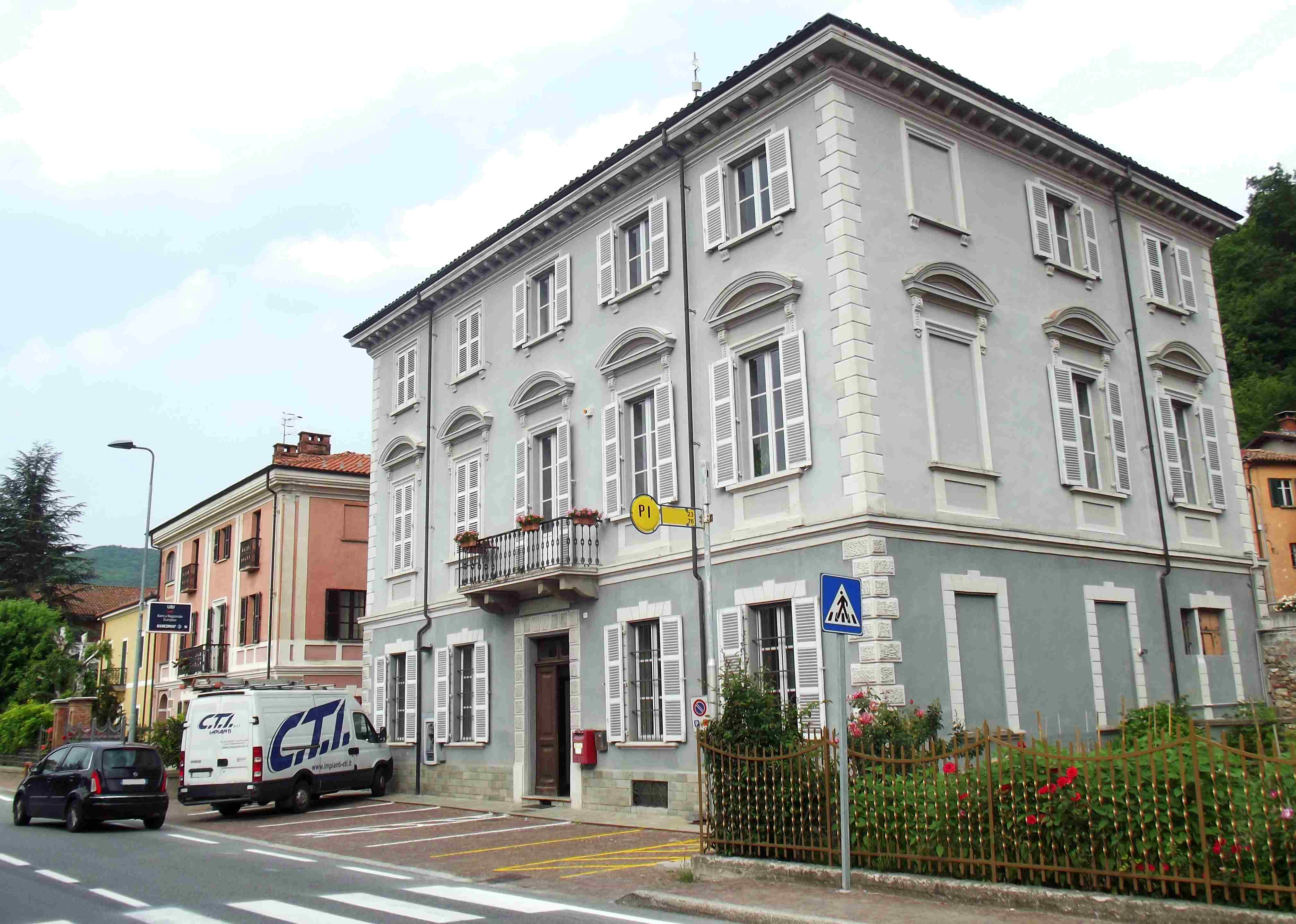 Nucetto (CN, Italy): town hall